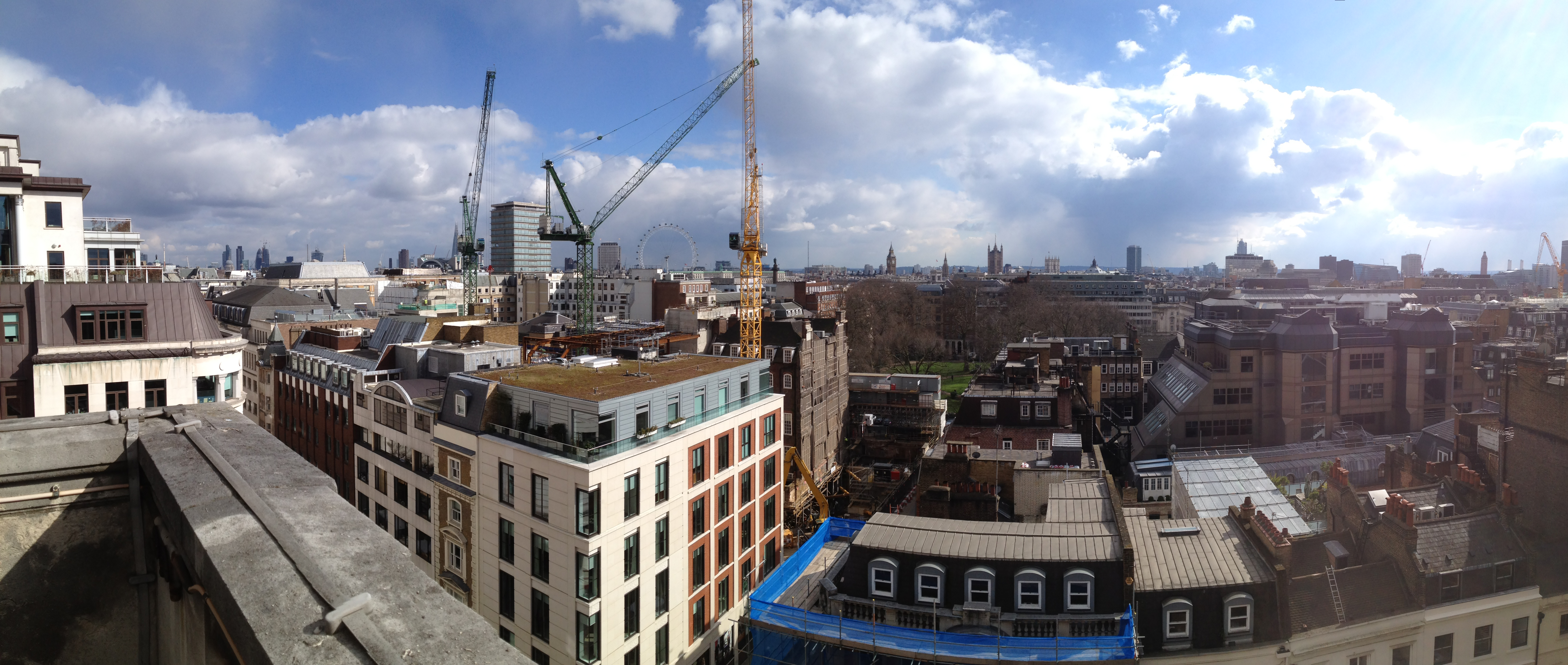 A view looking southeast from the tower of St James's Piccadilly showing the skyline of London